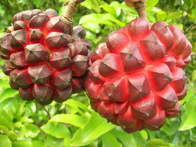 Pindaiba Fruit